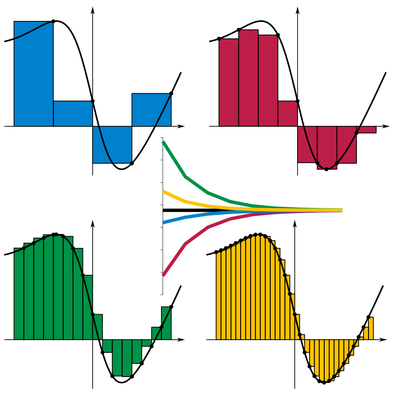 Show convergence of Riemann sum for all sample position choices as intervals shrink